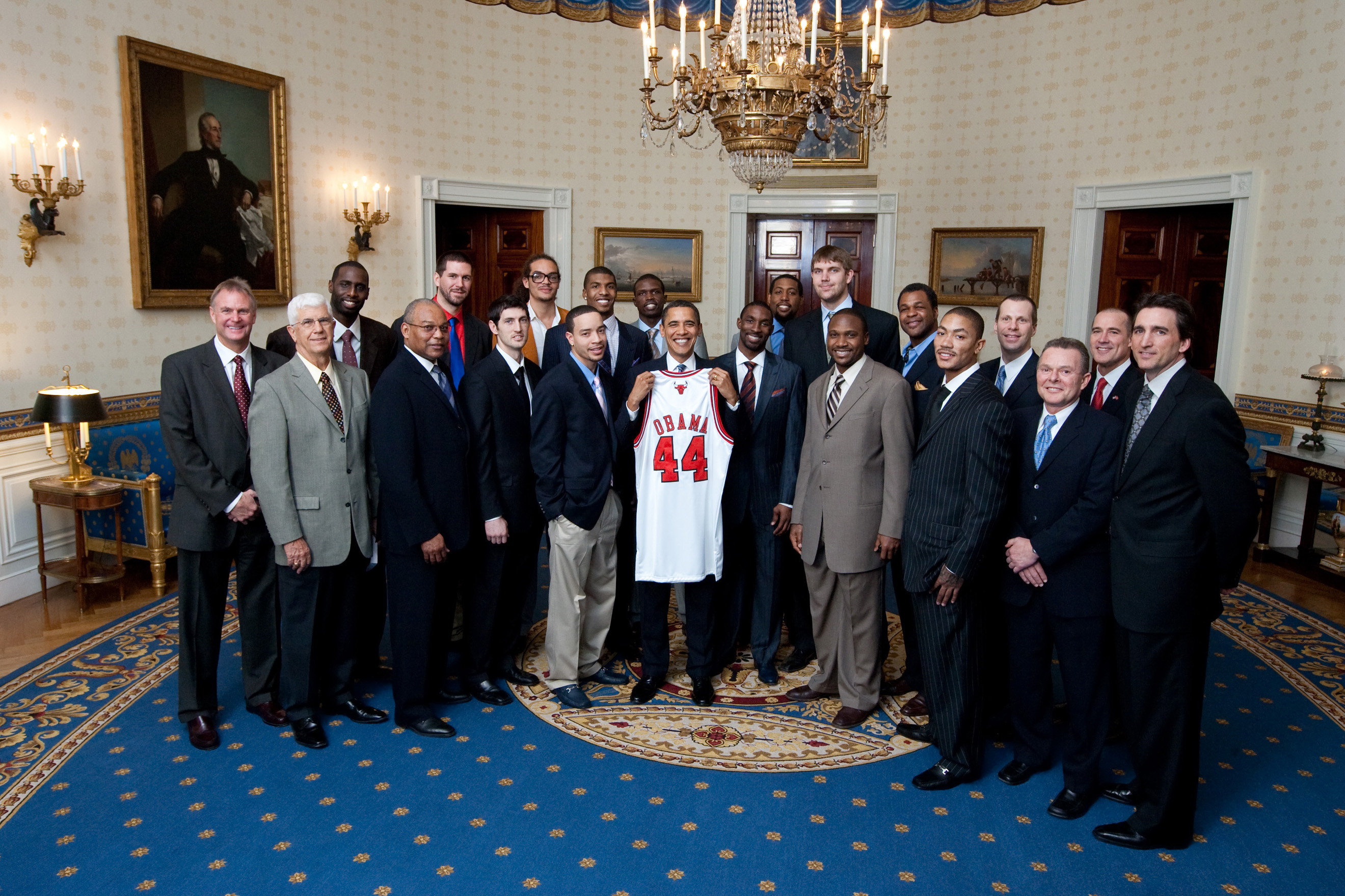 President Barack Obama with members of the Chicago Bulls basketball team Thursday, Feb. 26, 2009, in the Blue Room at the White House. Front row, left to right: Assistant coach Del Harris, assistant coach Bernie Bickerstaff, point guard Kirk Hinrich, point guard Anthony Roberson, US president Barack Obama (holding a custom "Obama" jersey), shooting guard Ben Gordon, point guard Lindsey Hunter, point guard Derrick Rose, assistant coach Bob Ociepka, and head coach Vinny Del Negro. Back row, left to right: Assistant coach Dave Severns, power forward Tim Thomas, center Brad Miller, center Joakim Noah, power forward Tyrus Thomas, small forward Luol Deng, shooting guard Larry Hughes, small forward John Salmons, center Aaron Gray, assistant coach Pete Myers, assistant coach Mike Wilhelm, and general manager John Paxson.